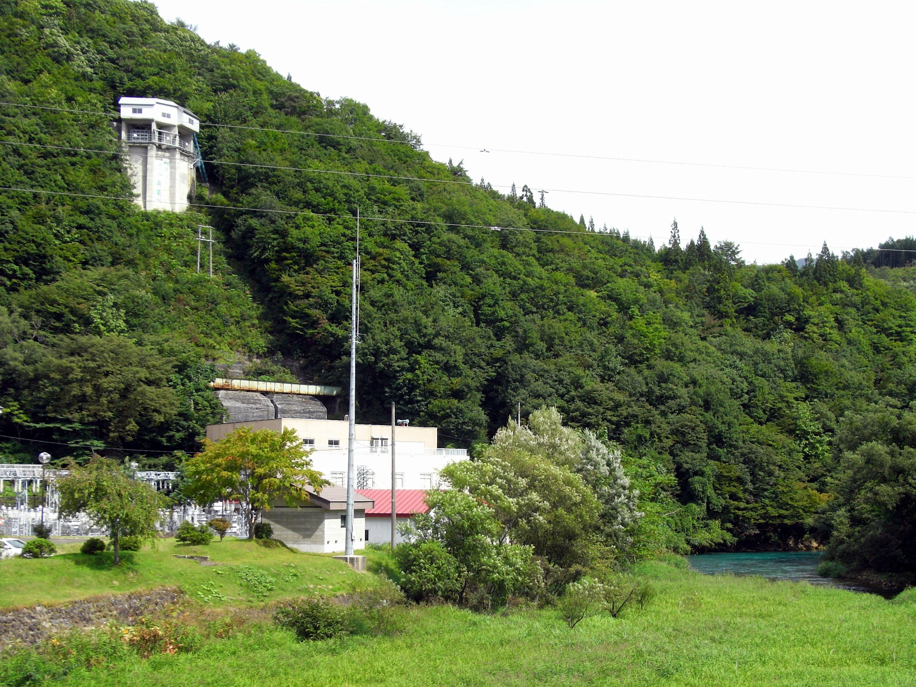 Yoroibata power station(Tamagawa river/Akita Pref./Japan)